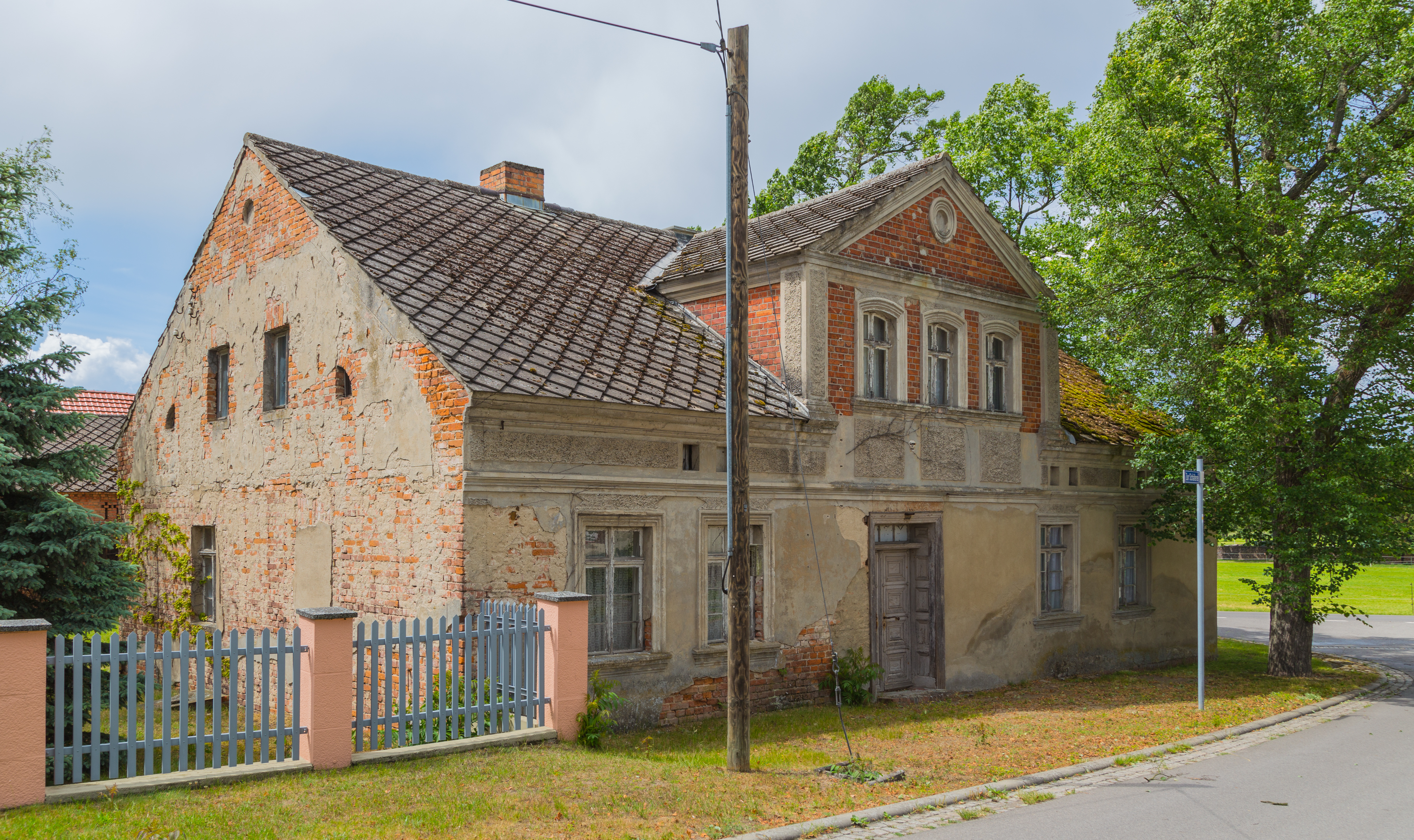 House in Bückchen, part of Wittmannsdorf-Bückchen, a district of Märkische Heide, Landkreis Dahme-Spreewald, Brandenburg, Germany.